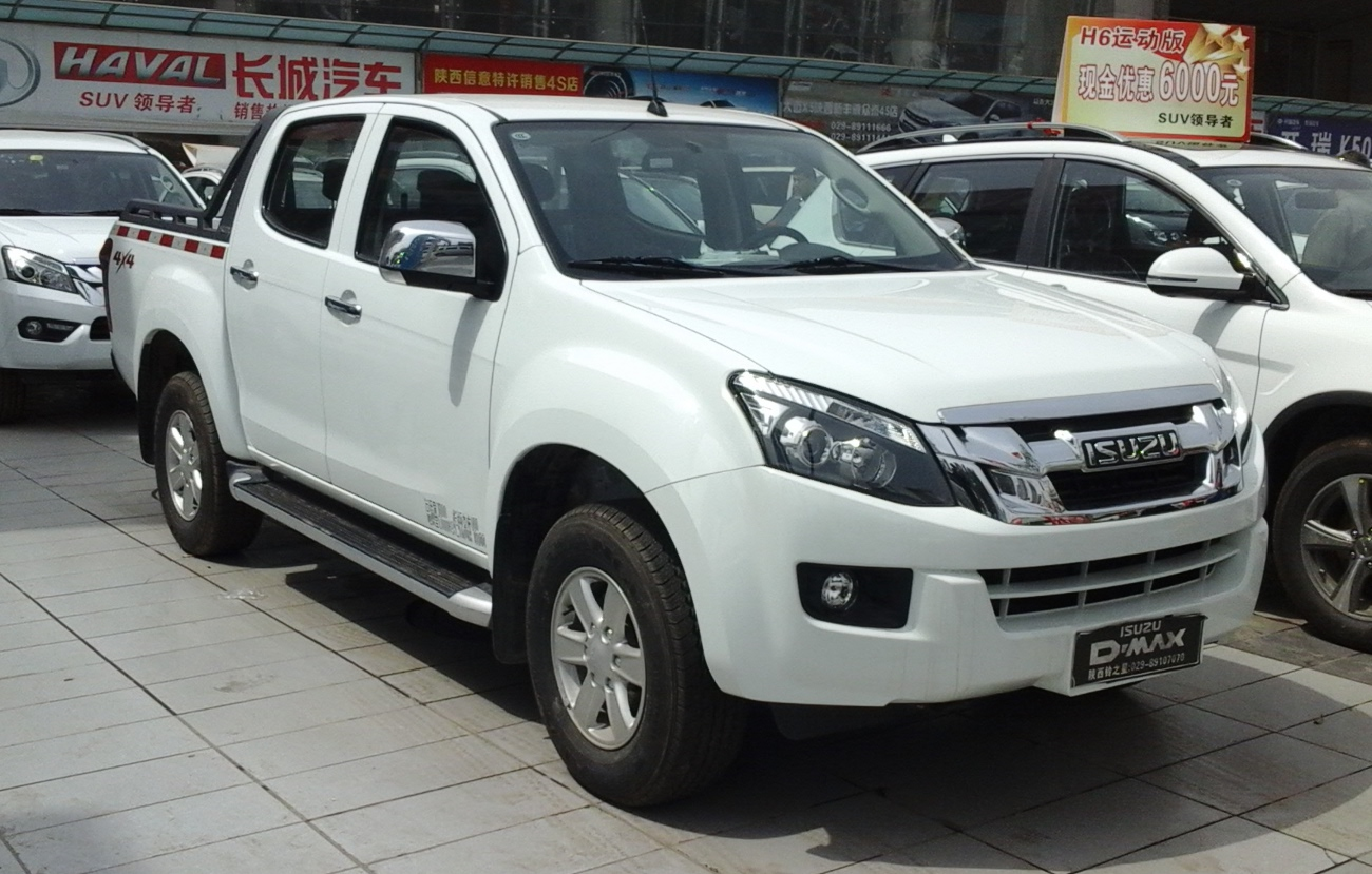 Isuzu D-Max II photographed in Xi'an, Shaanxi province, China.